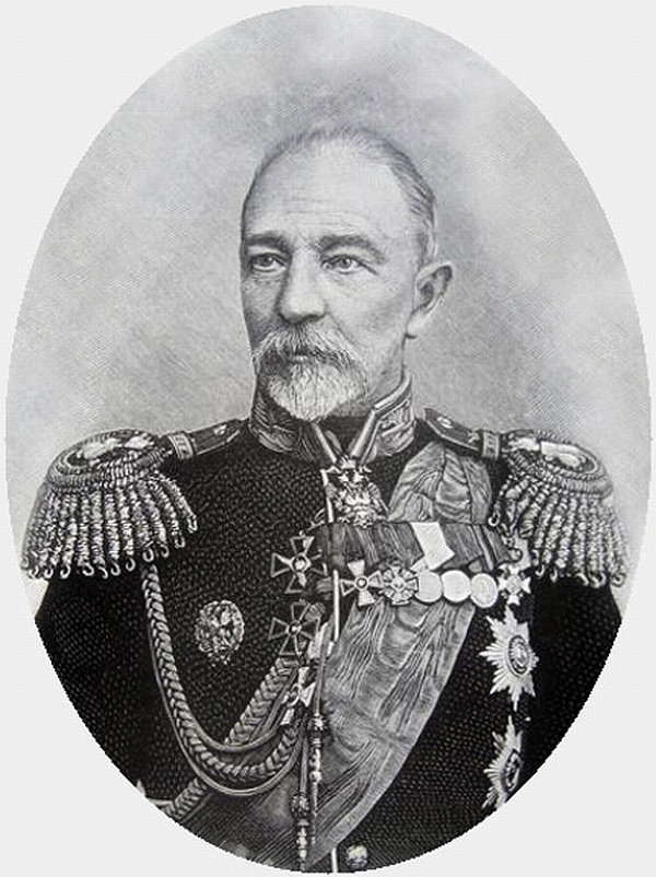 Tyrtov Pavel Petrovitsch (1836-1903). Admiral of Russia, Ministr (1896)